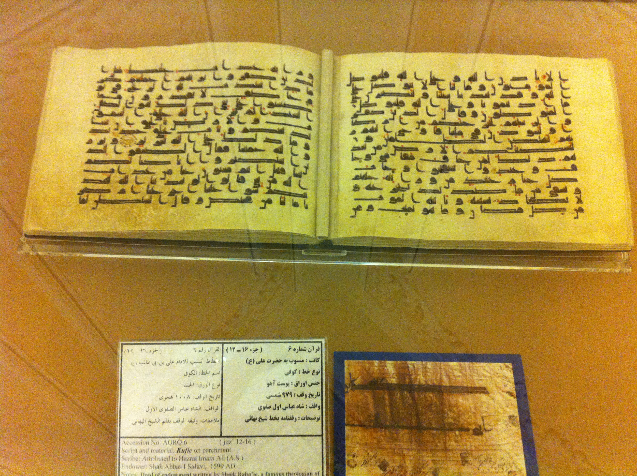 This is a photo of one of the first Qurans ever made, it is written by Ali ibn Abi Talib the close companion of Prophet Muhammad and first Shia Imam. This photo was taken in Mashhad, Iran where this Quran is kept.